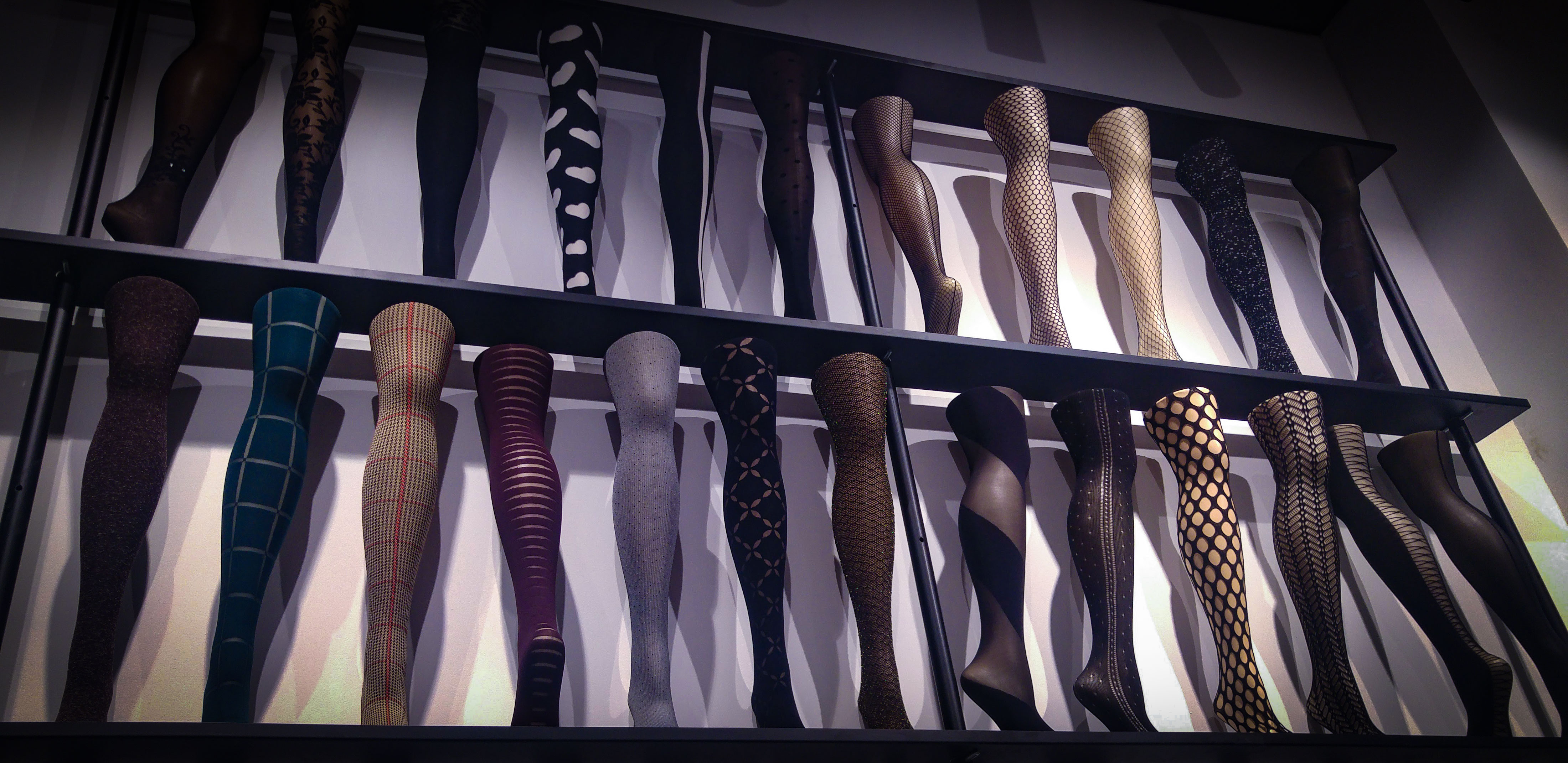 Various samples of Stockings at a mall in Tel Aviv